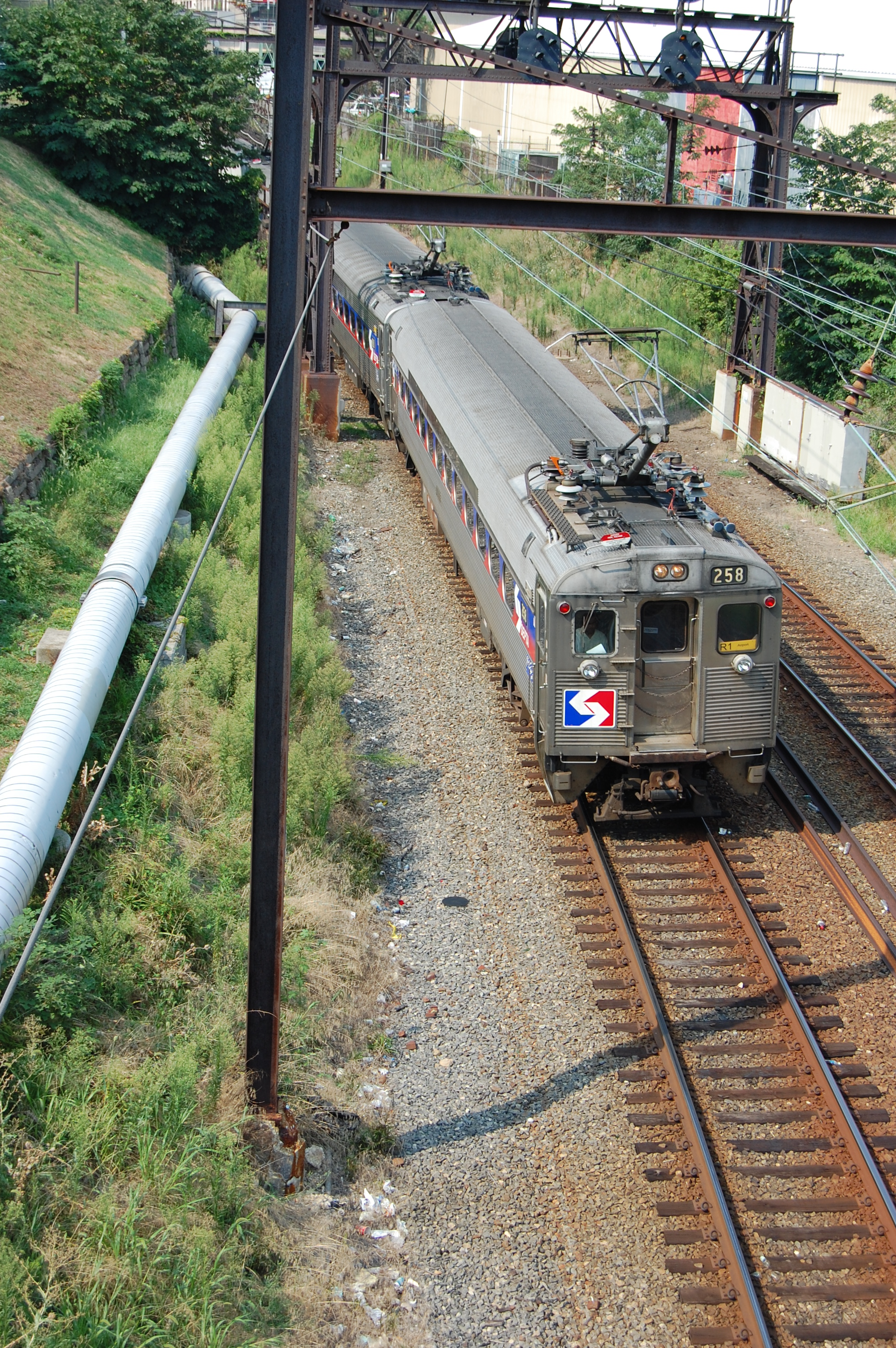 SEPTA R1 Regional Rail train shortly after departing 30th Street Station on its way to University City station.